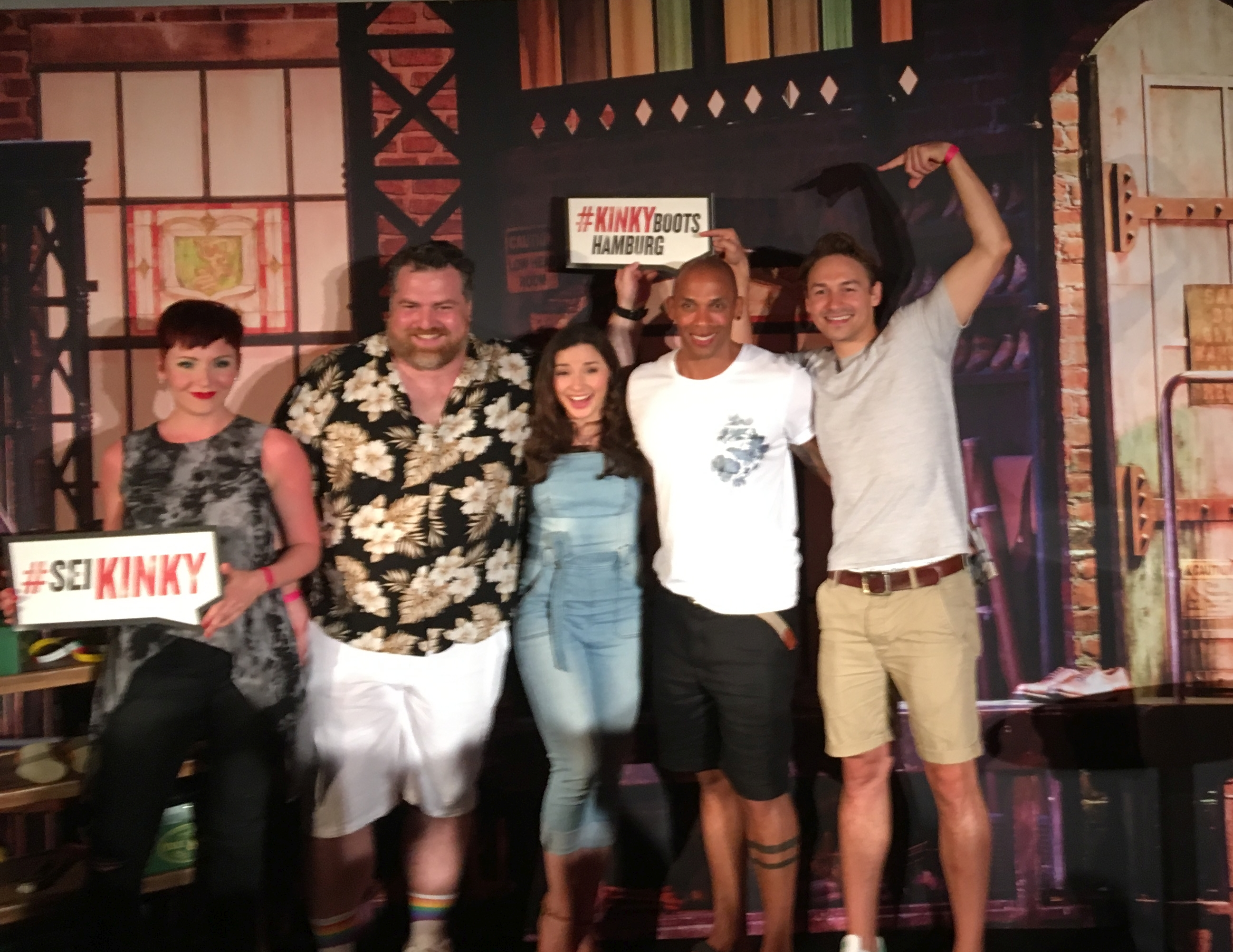 Main Cast of Musical "Kinky Boots" in Operettenhaus, Hamburg, Germany (May 2018) -- left to right: Franziska Schuster, Benjamin Eberling, Jeannine Michele Wacker, Gino Emnes, Dominik Hees.